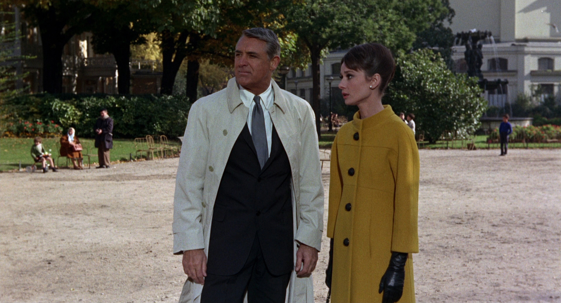 A screenshot from the film Charade (1963)